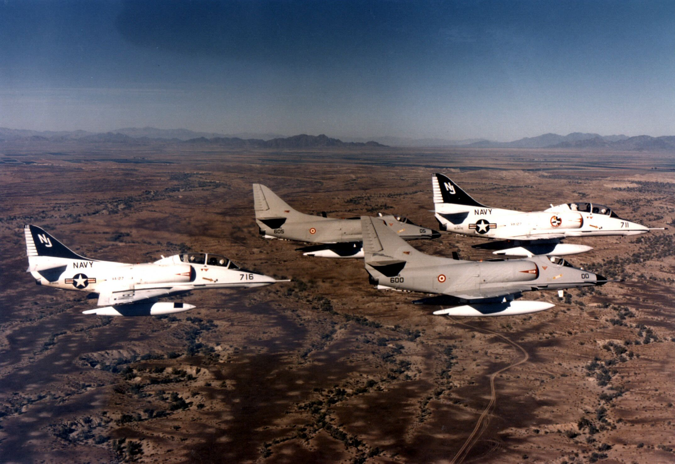 Two Republic of Singapore Air Force Douglas A-4S Skyhawk and two U.S. Navy TA-4J from Attack Squadron 127 (VA-127) "Royal Blues" in flight.